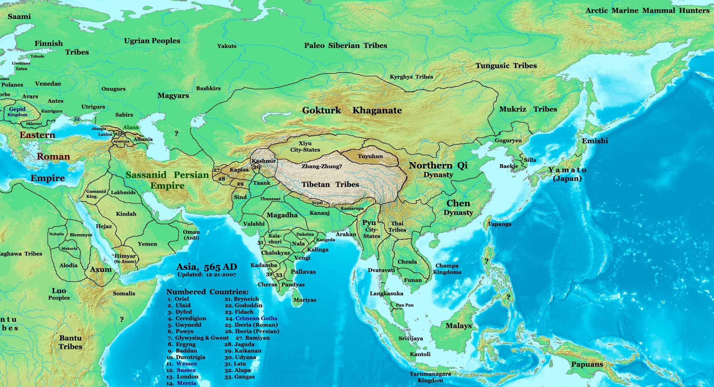 Took from Wikipedia-en Image